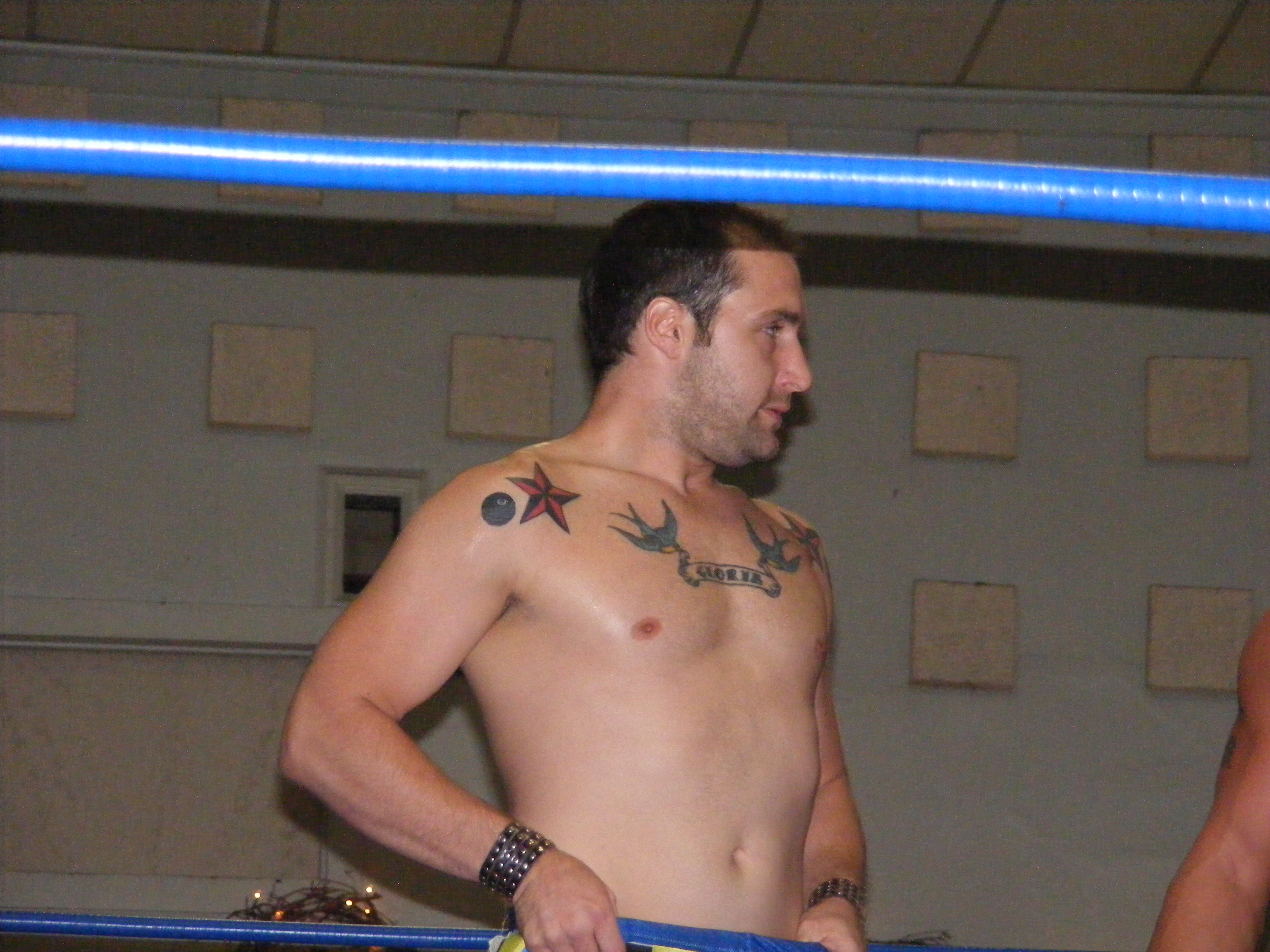 Josh Raymond at a Chikara's Young Lions Cup Night 2 in Reading, Pennsylvania on August 28, 2010.